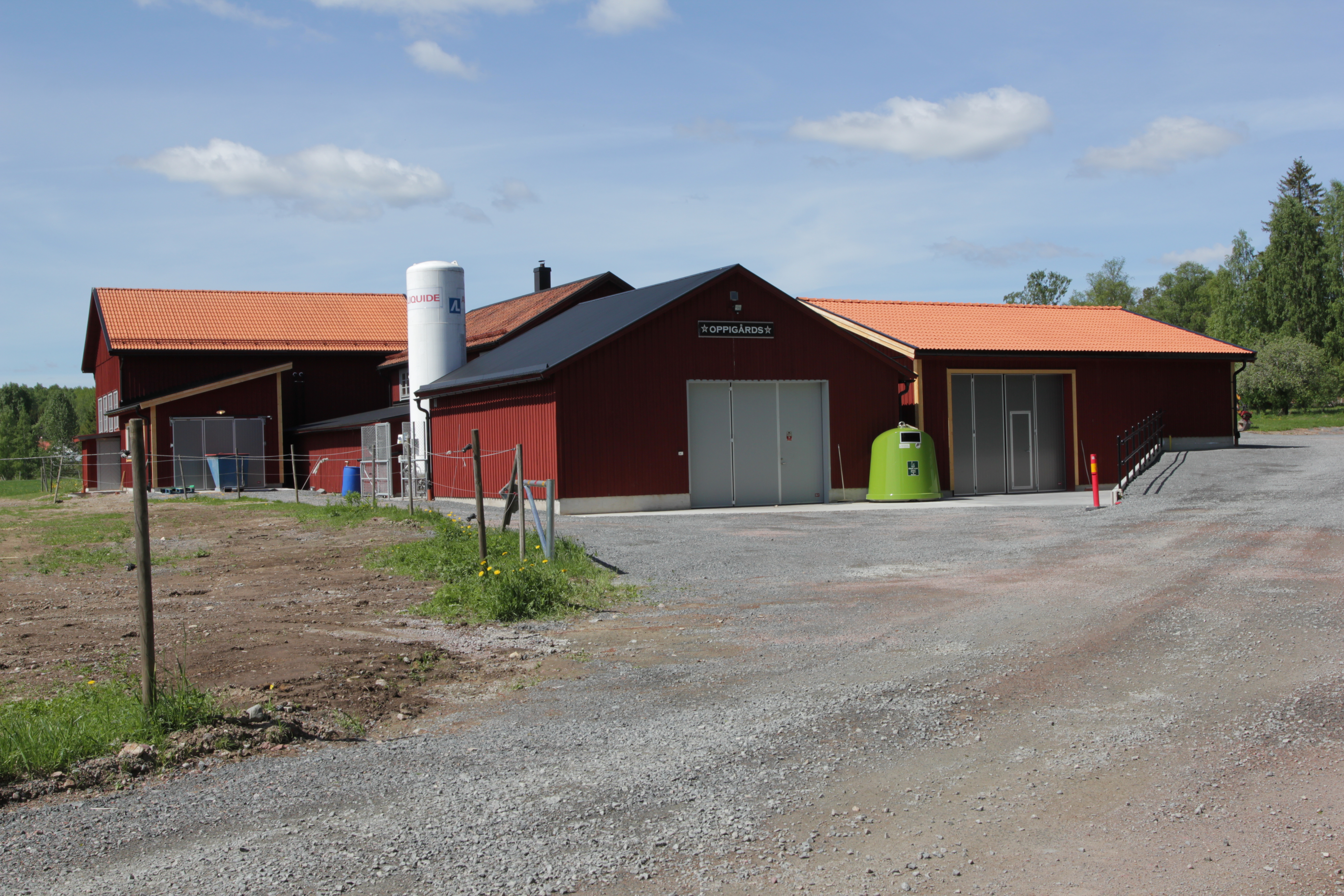 Oppigårds brewery, Ingvallsbenning, Hedemora Municipality, Sweden.